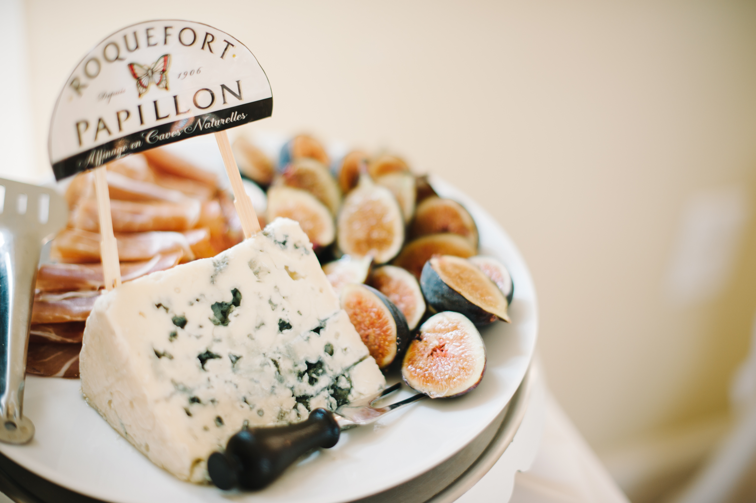 Blue cheese plates with fruit and biscuit in wedding